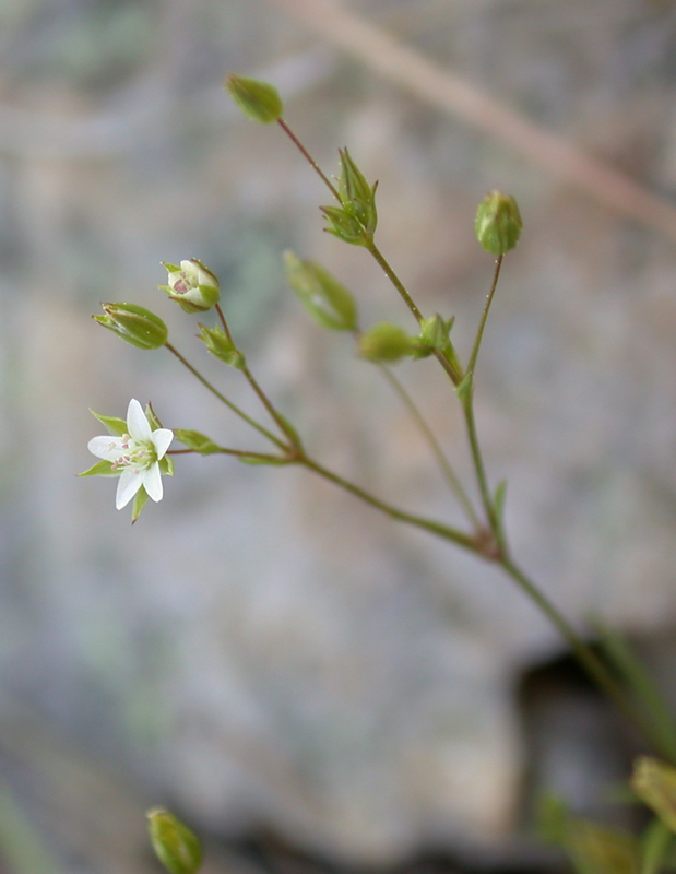 Minuartia hybrida (Vill.) Schischk. (צללית הכלאיים), Mount Carmel, Israel, March 8, 2007.